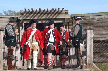 Reenactment at Fort Stanwix National Monument, Rome, New York, USA